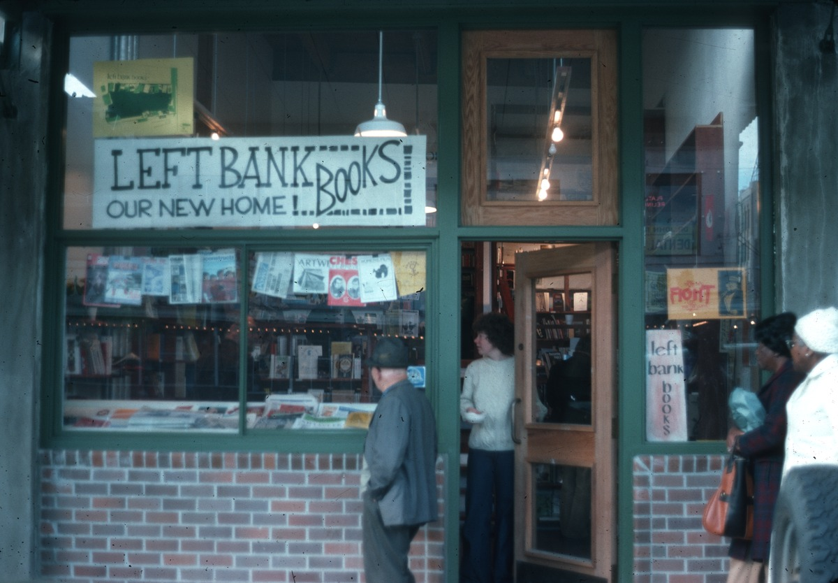 Left Bank Books, Pike Place Market, Seattle, Washington, 1975. Part of online exhibit for a history of the market. Item 34398, Pike Place Market Visual Images and Audiotapes (Record Series 1628-02), Seattle Municipal Archives.